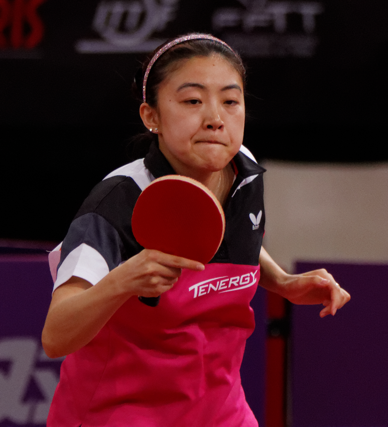 2013 World Table Tennis Championships, Paris. Women's Singles Quarterfinal. Melek Hu vs Liu Shiwen.